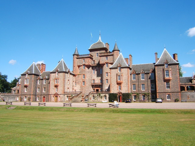 Thirlestane Castle, Lauder, Scottish Borders